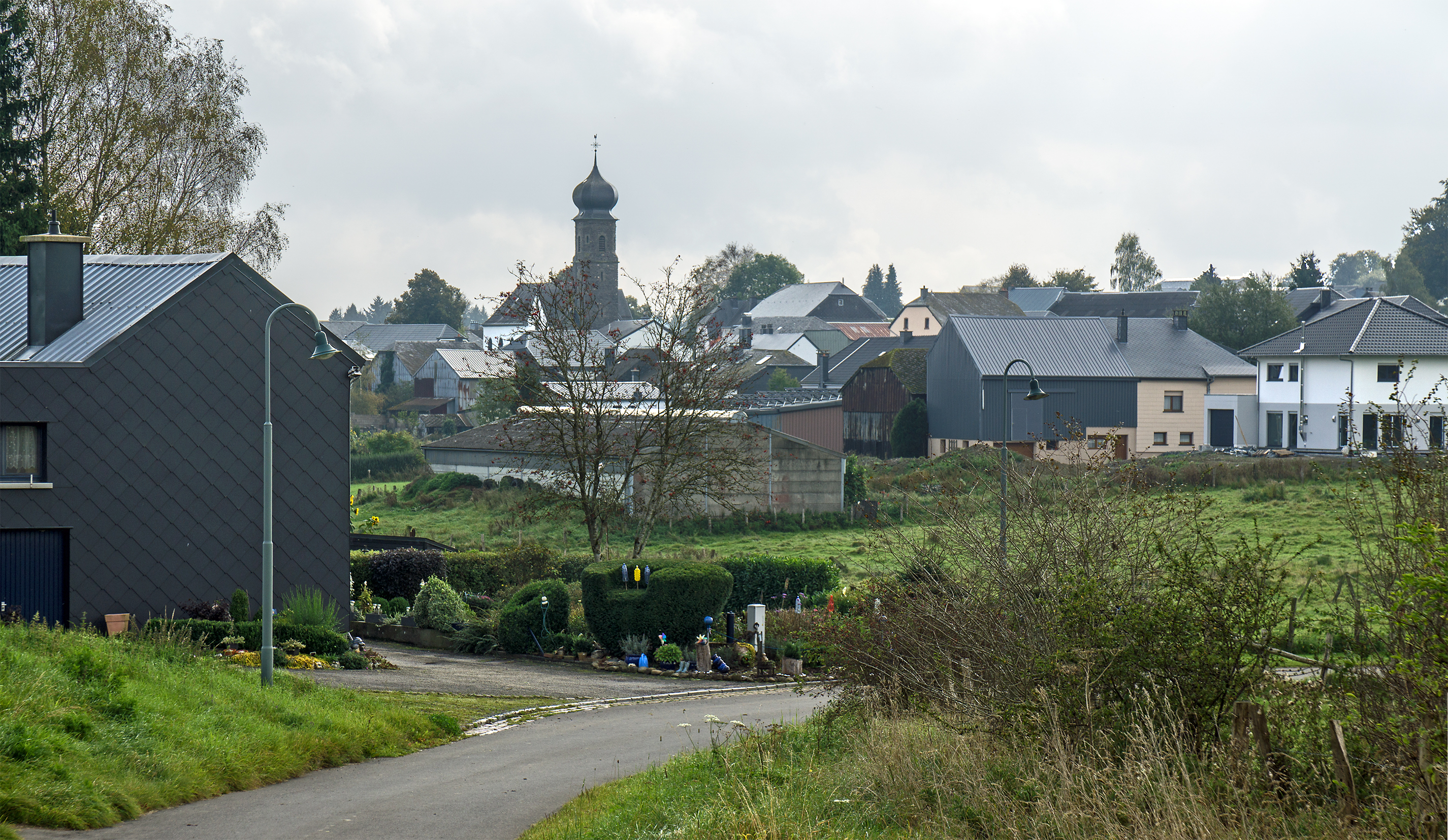 Hachiville seen from Northwest